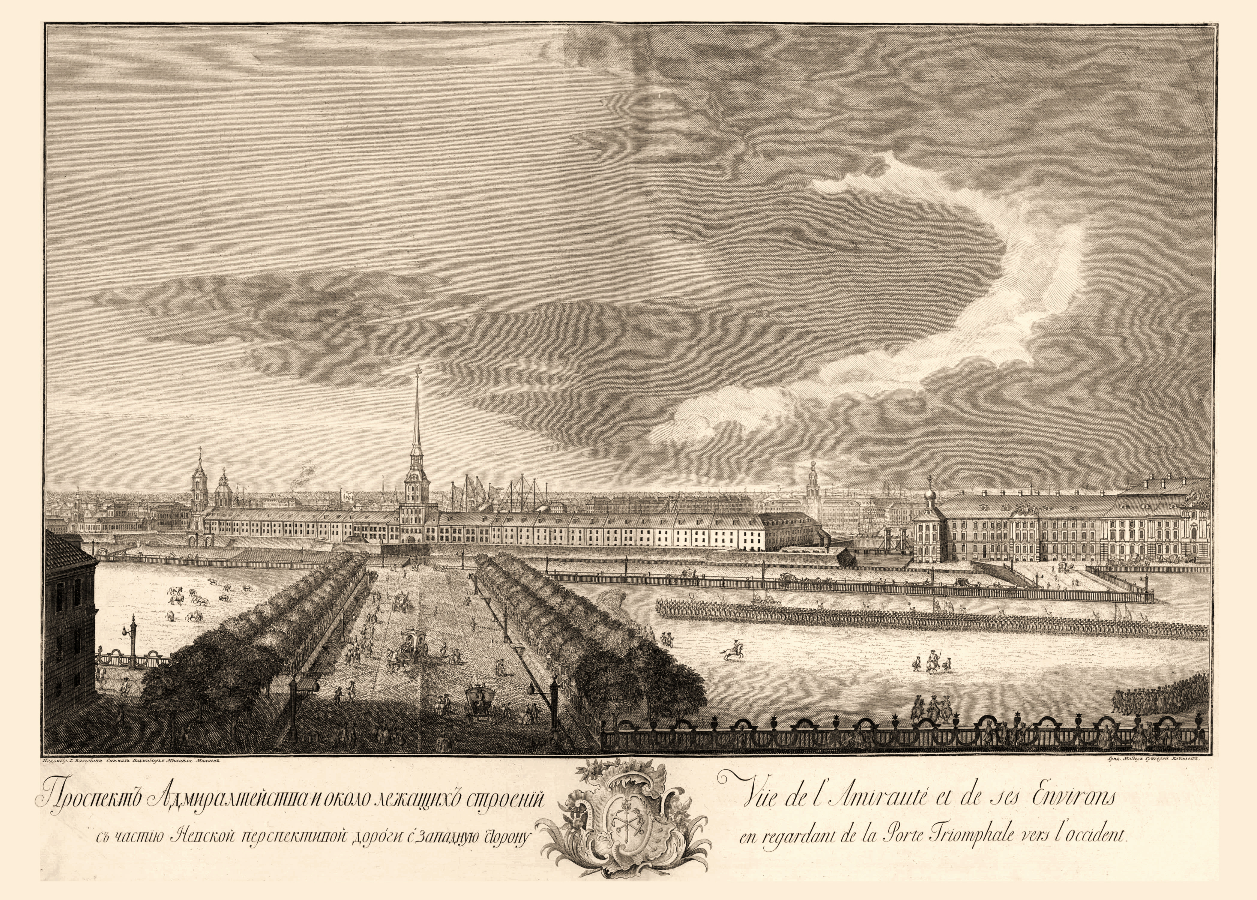 Nevskii prospect and Admiralty. The painting in 1753.